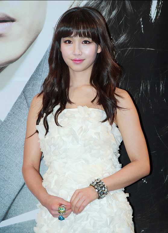 Lee Yoo-ri in February 2012